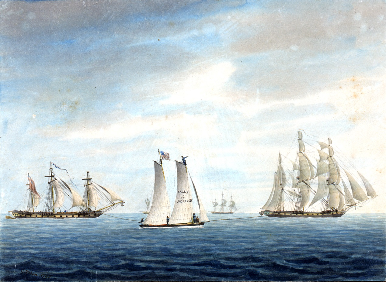 Vessels:Cleopatra 1778 [British navy], Sally of Norfolk [American], Thisbe 1783 [British navy], water transport: service vessel: boat, pilot [American]